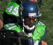 Seattle Seahawks players, 2009